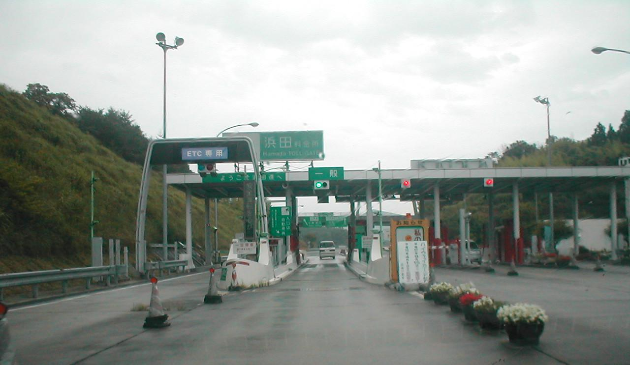 Hamada Main Line tollgate of Japanese Hamada Expressway